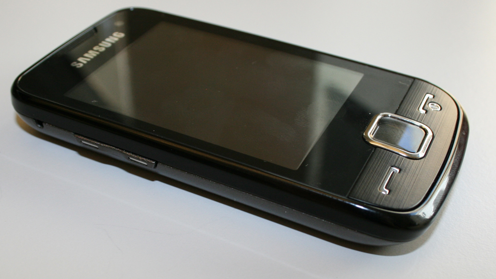 Samsung S5600 mobile phone.